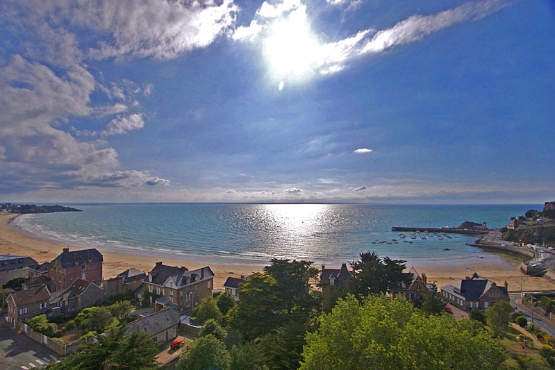 Wide angle view on the sandy beach of Val André